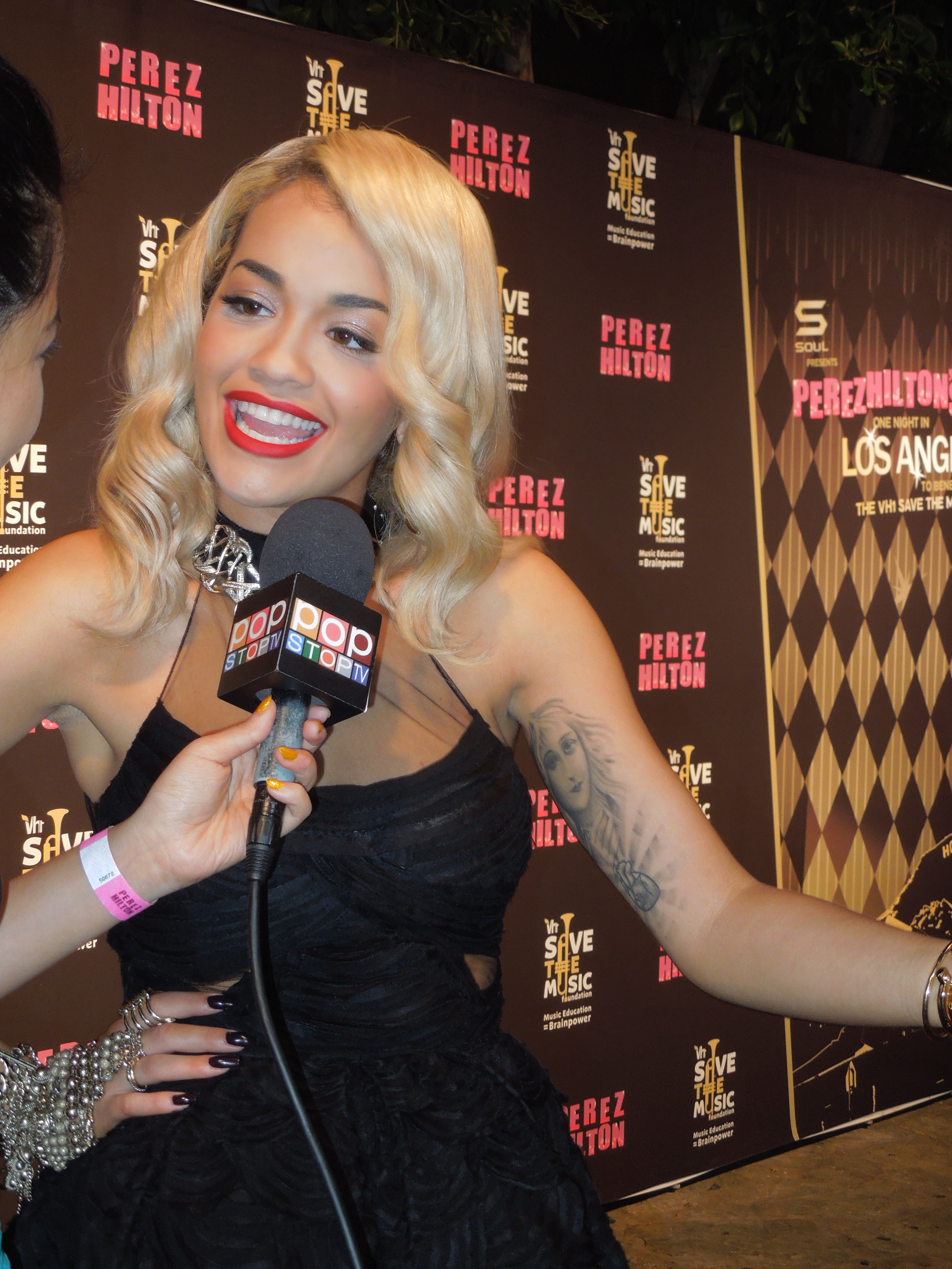 British songstress Rita Ora answers questions from the press before she takes the stage. (Sarah Mickelson/ Neon Tommy)